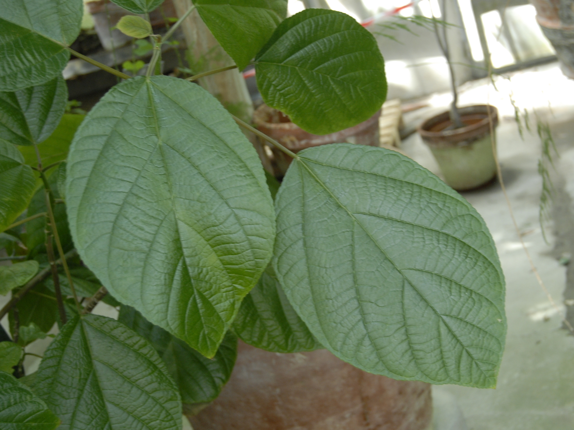 Pipturus platyphyllus at Orto Botanico dell'Università di Genova